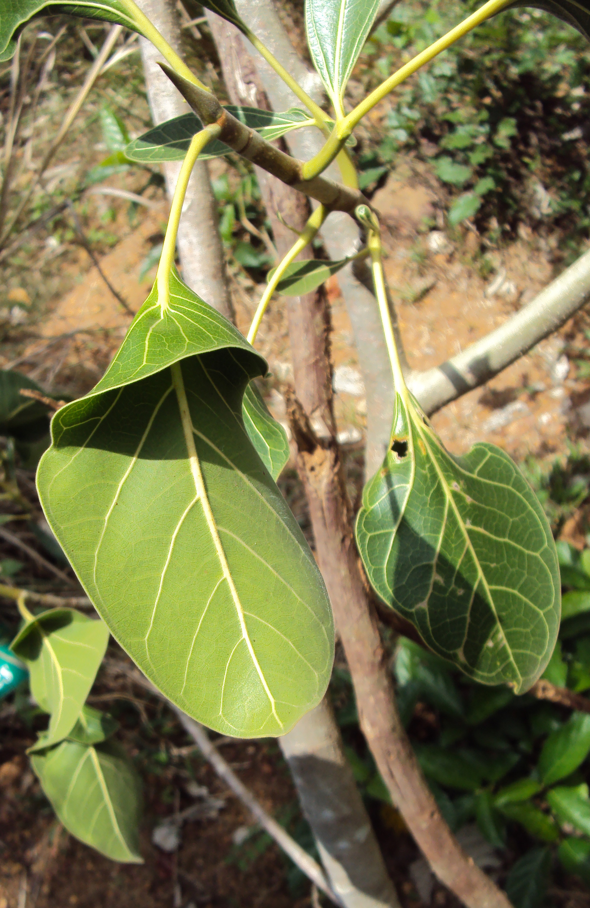 കൃഷ്ണനാല്‍ - Ficus krishnae, Ficus benghalensis var. krishnae. പേരാലിന്റെ ഒരു ചെറിയ വകഭേദം. ഇലകള്‍ കുമ്പിളുകൂട്ടിയതുപോലിരിക്കും. കൃഷ്ണന്‍ ചെറുതായിരിക്കുമ്പോള്‍ ഭക്ഷണം നല്‍കാന്‍ കുമ്പിളുകൂട്ടിയതാണത്രേ, അതുകൊണ്ട്‌ കൃഷ്ണനാല്‍ എന്നു പേര്‍.